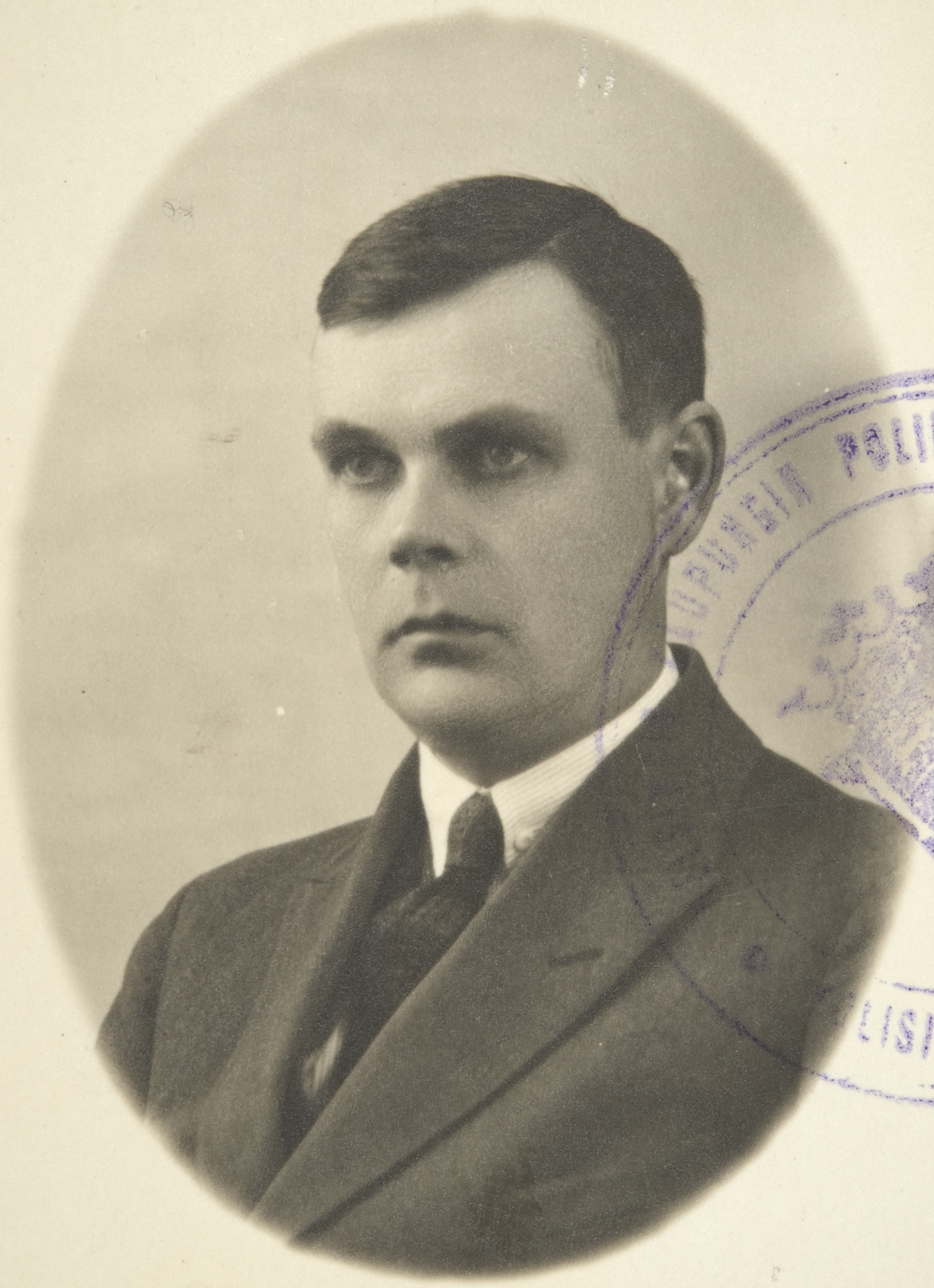 Photograph of the Finnish architect Gunnar Taucher (1886–1941).